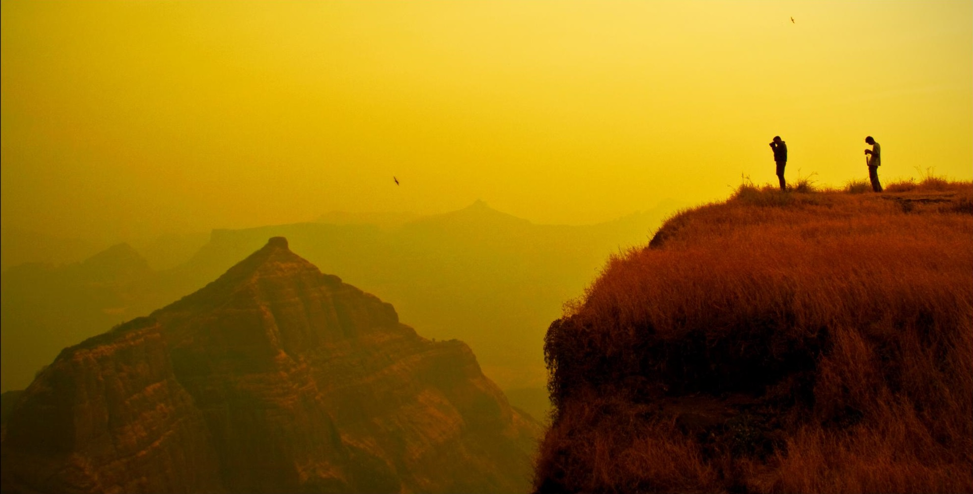 Place - Fort Harishchandragad, Maharashtra, India